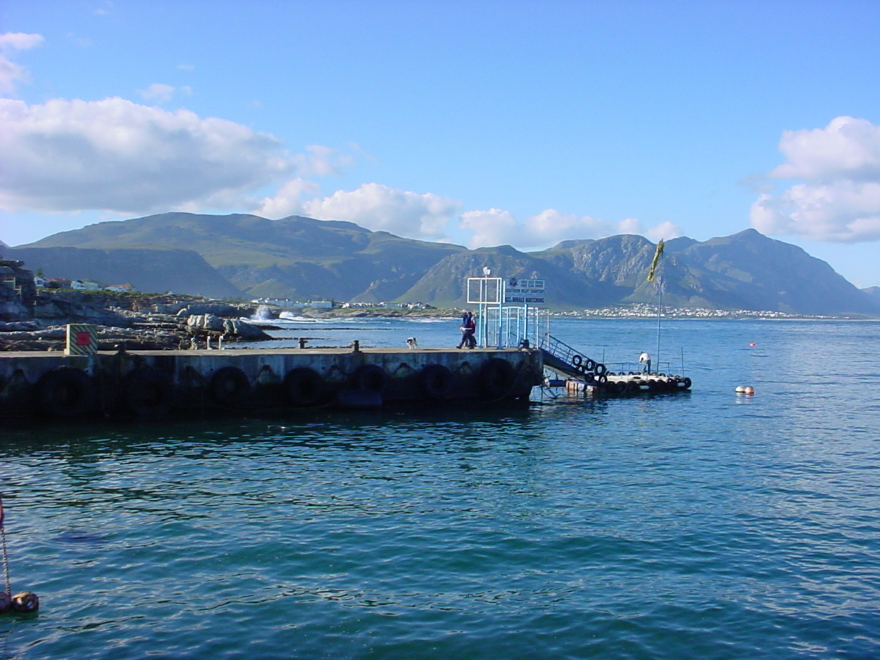 Hermanus new harbour